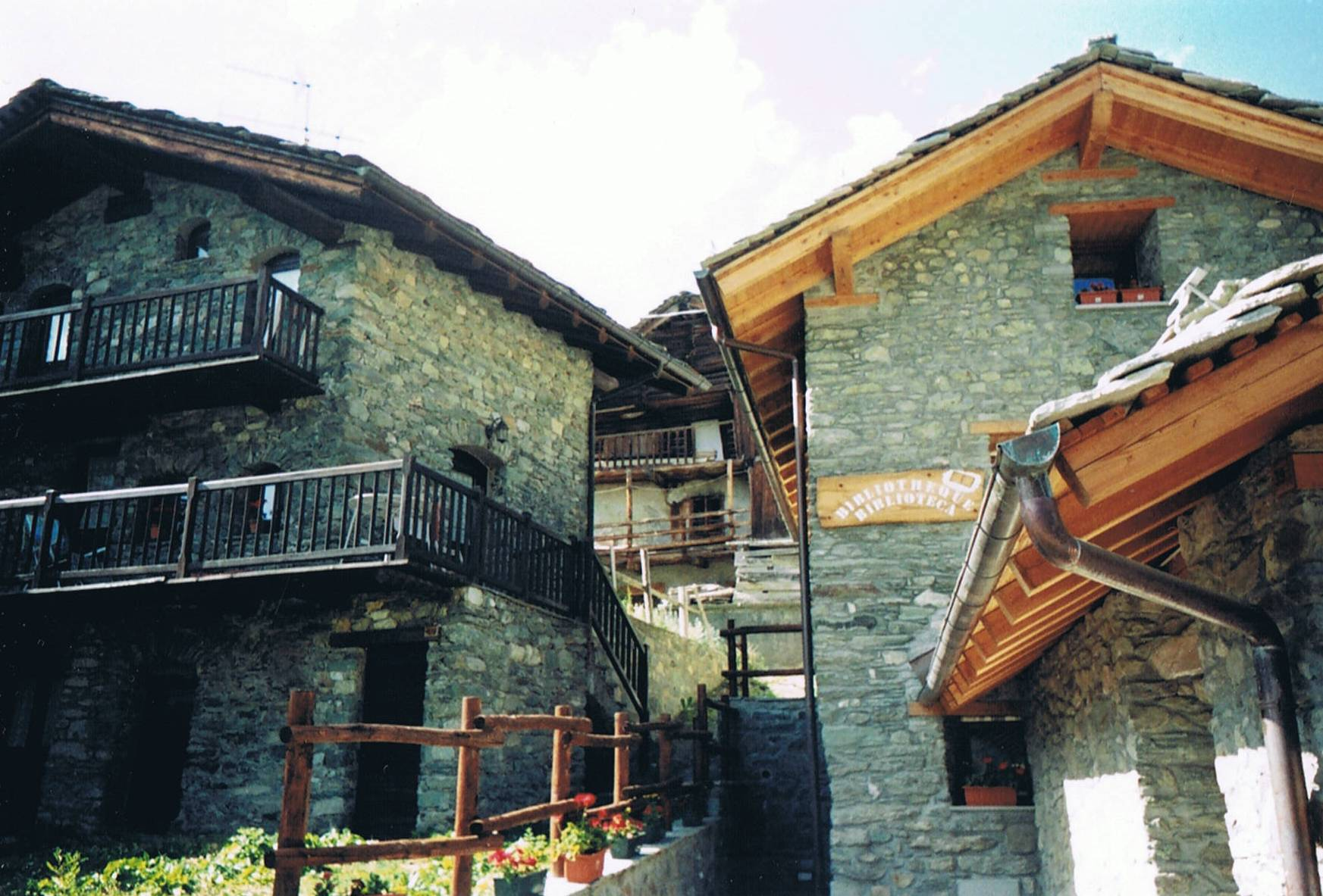 Public library in Chamois (Aosta Valley, Italy)